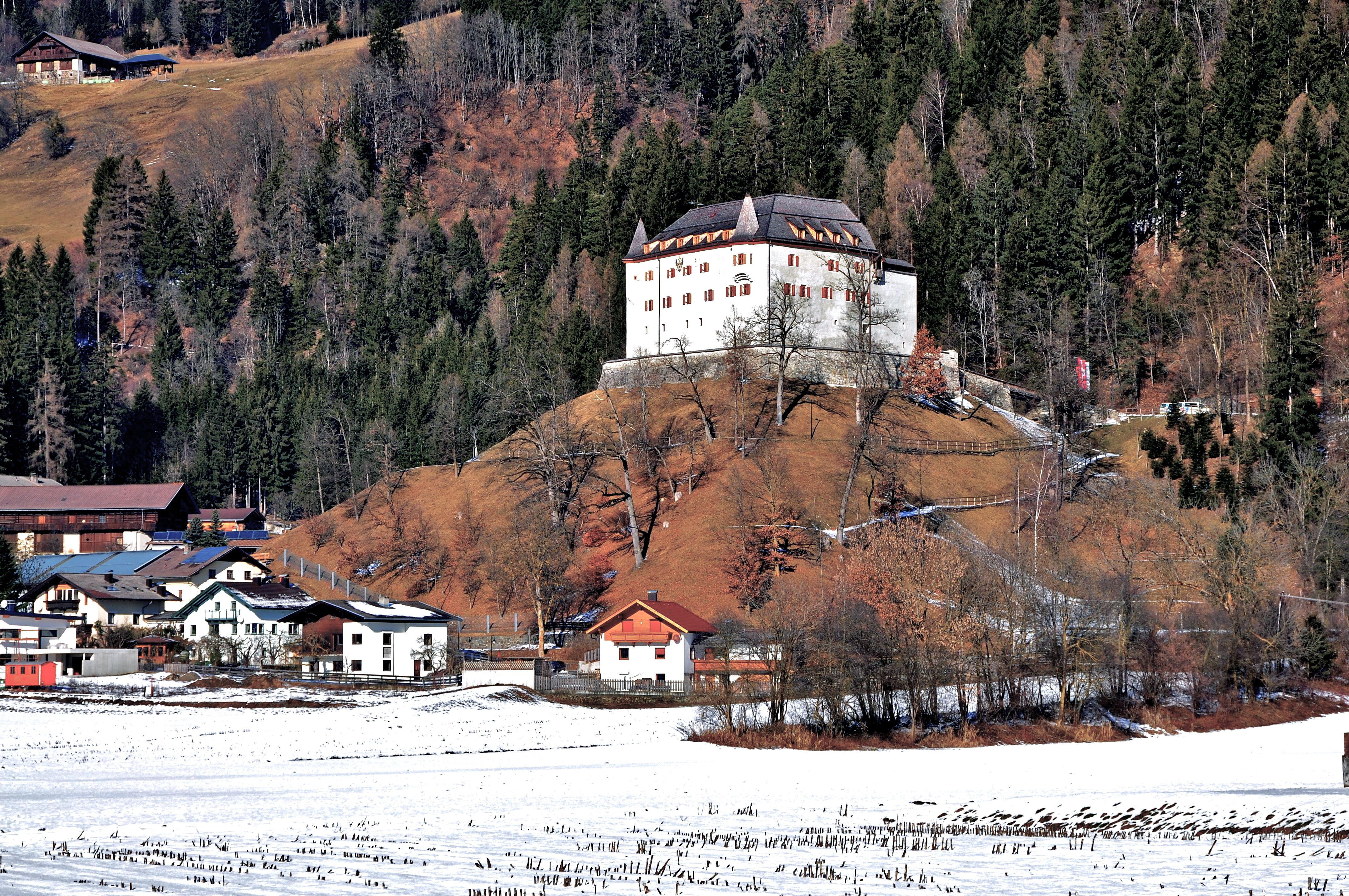 Castle Lengberg, municipality Nikolsdorf, district Lienz, Tyrol, Austria / EU